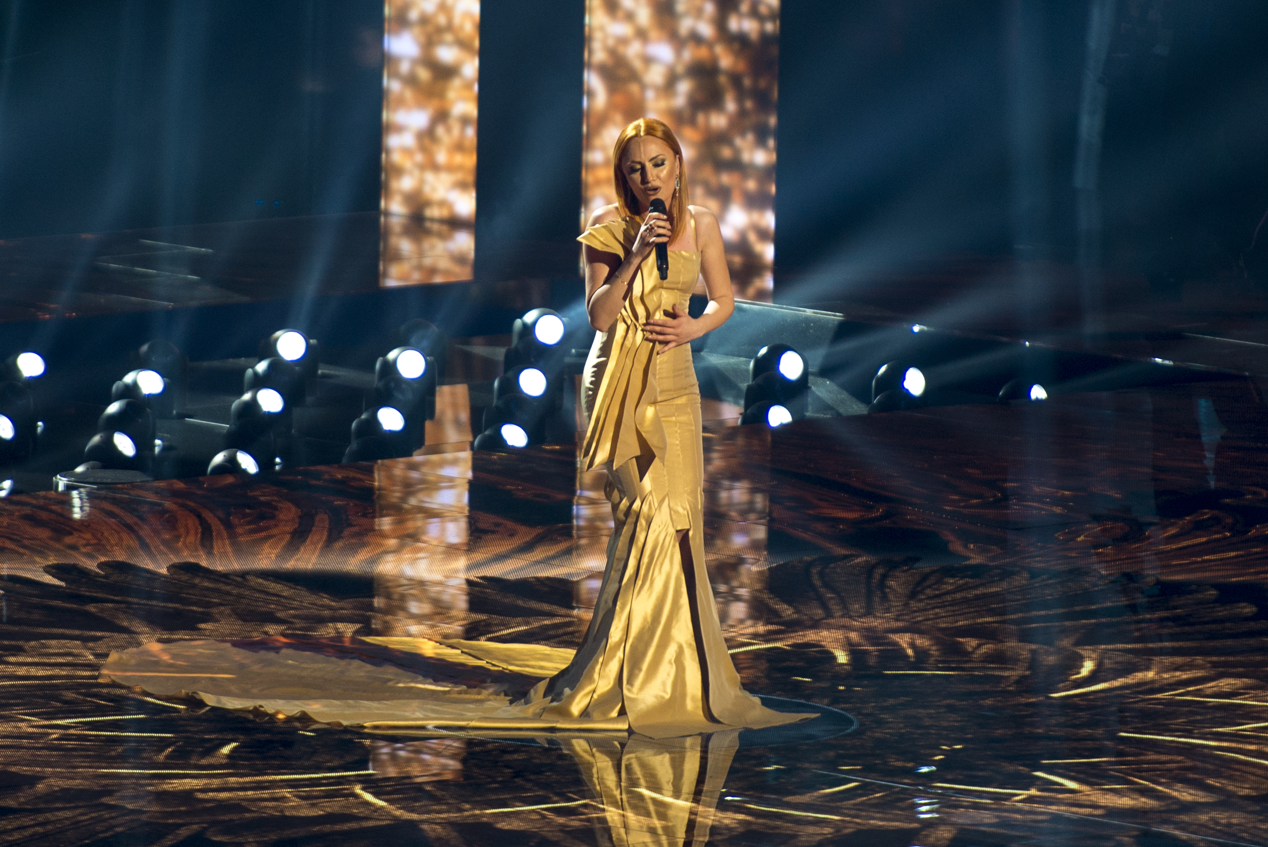 Eneda Tarifa representing Albania with the song "Fairytale" during a rehearsal before the second semi final of the Eurovision Song Contest 2016 in Stockholm. (Help translate this text)